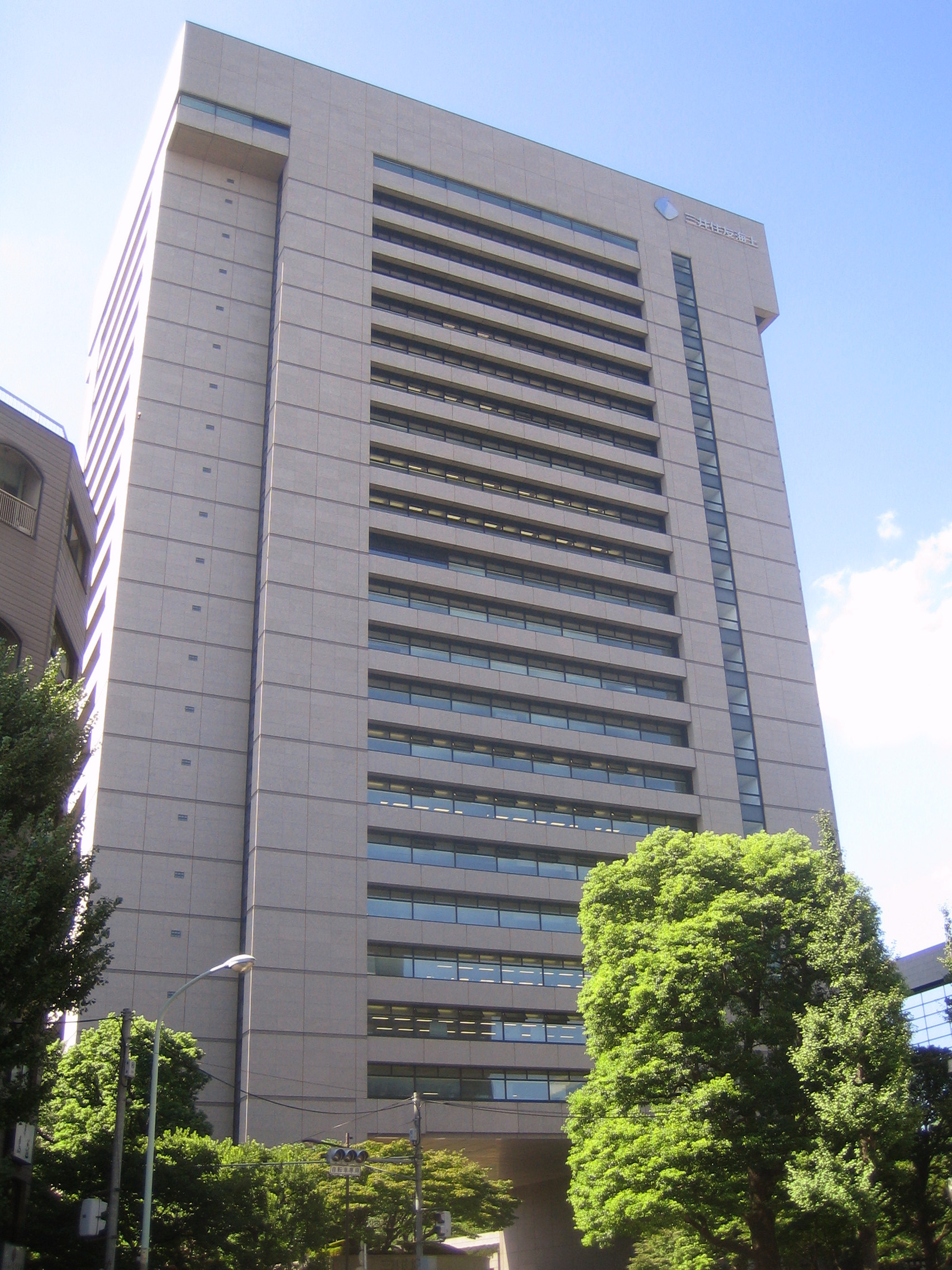 Mitsui Sumitomo Insurance Co., Ltd. (三井住友海上火災保険) Surugadai Building, located at Kanda-Surugadai, Chiyoda, Tokyo, Japan